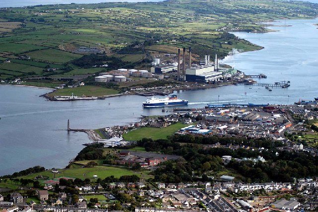 1500 ft High! above Larne Town